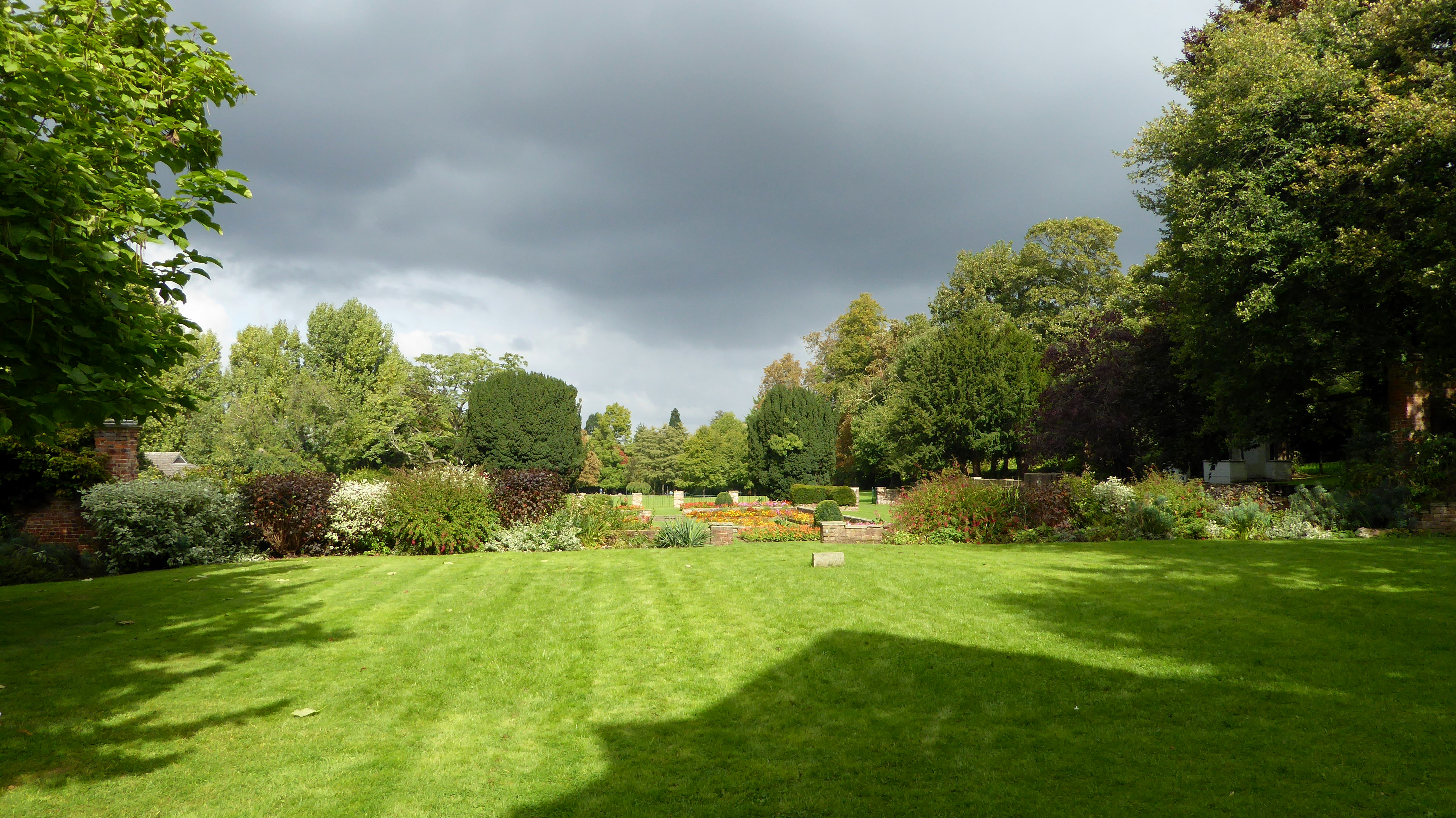 The garden outside the Old Priory at Orpington, southeast London. This garden was laid out by the last private owner of the house, and is retained by volunteers.